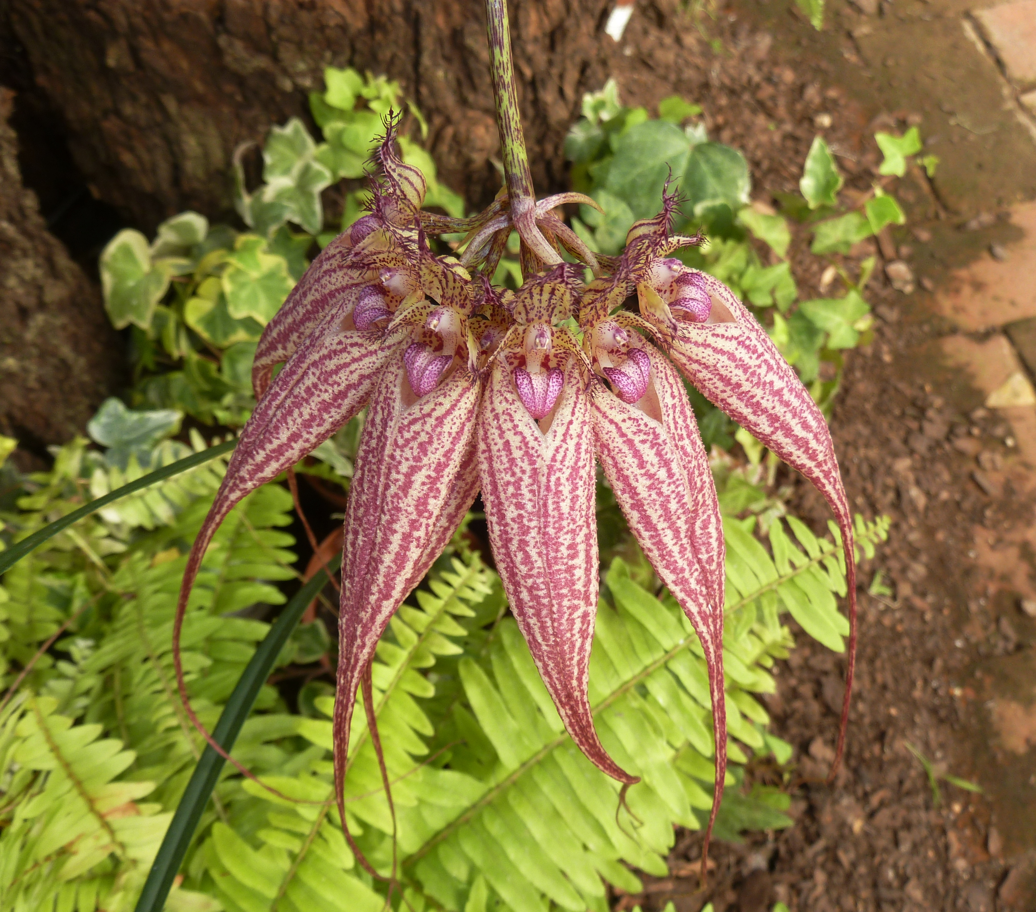 Inflorescence of Bulbophyllum rothschildianum at an orchid exhibition held at Safari Garden Centre in Pretoria